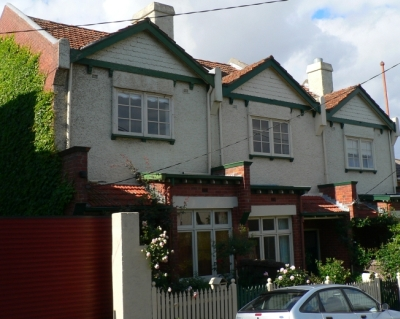 Edwardian Houses in Richmond Victoria.